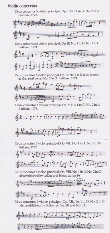 St. Georges:14 Violin Concertos